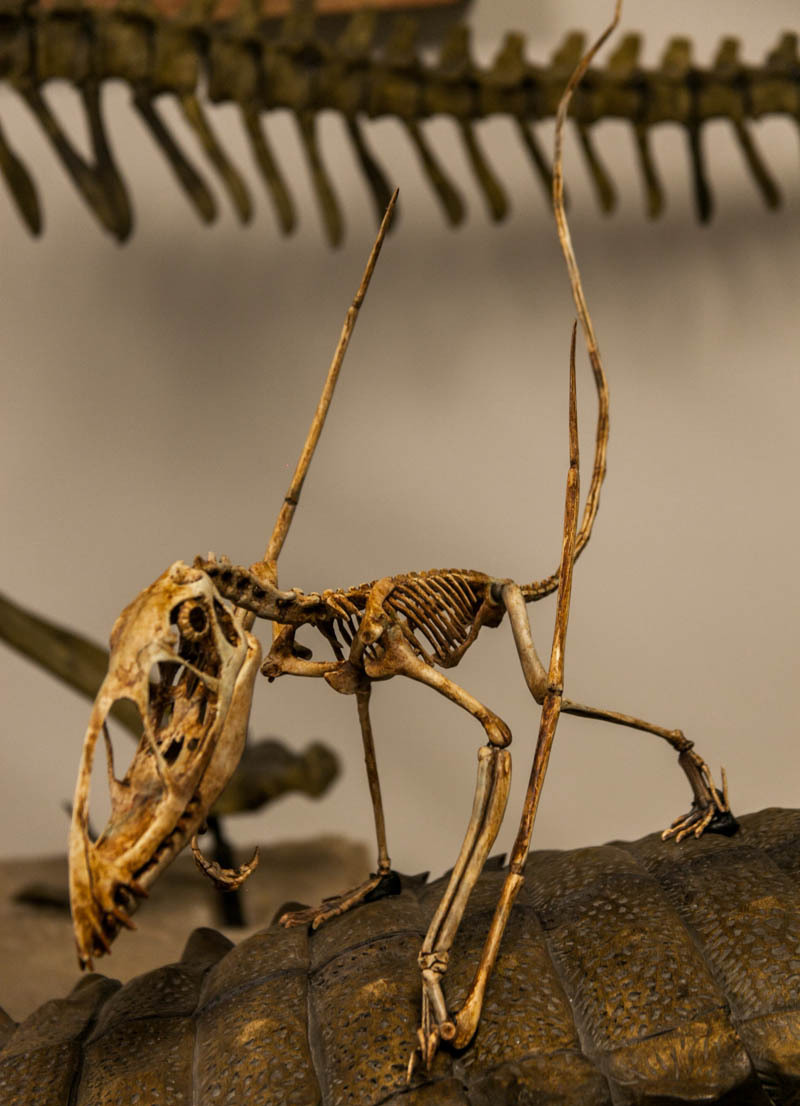 Mounted skeleton of the small Early Jurassic pterosaur Dimorphodon, sitting on the back (dorsal osteoderms) of a mounted skeleton of the aetosaur Desmatosuchus. Since the latter genus actually lived in the early Late Triassic, such an arrangement seems somewhat anachronistic, but here it stands for the presence of a small indeterminable pterosaur, which may have been similar in appearance to Dimorphodon, in the fossil fauna of the Upper Triassic beds (Chinle Formation) of the Petrified Forest National Park. Original comment on the photo at flickr: “This is a very cool National Park southeast of Holbrook, AZ - well worth the detour. Heather Rice and I checked out this park as part of her American Southwest Sampler tour. We started at the southern entrance, stopping first at the Visitor Center and taking some small trails to look at the petrified wood up close and personal. The colors are amazing. We walked to the Agate House - very impressive. All sorts and sizes of petrified wood everywhere - I wondered how much is still there, uncovered. As you drive north, the landscape changes dramatically. Weird looking hills, Blue Mesa, and then you come to the Painted Desert lookouts. I wish we spent more time there but we still had a long drive ahead of us. Guess we have to go back again!!We visited this park in March 2014.”